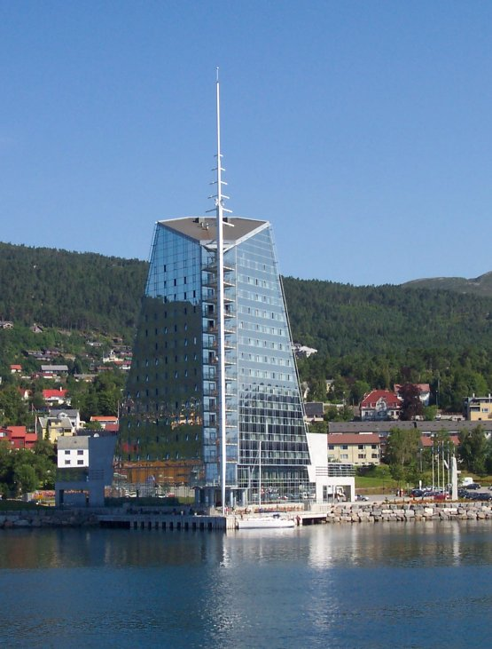 Rica Seilet hotell in Molde seen from a passing ferry